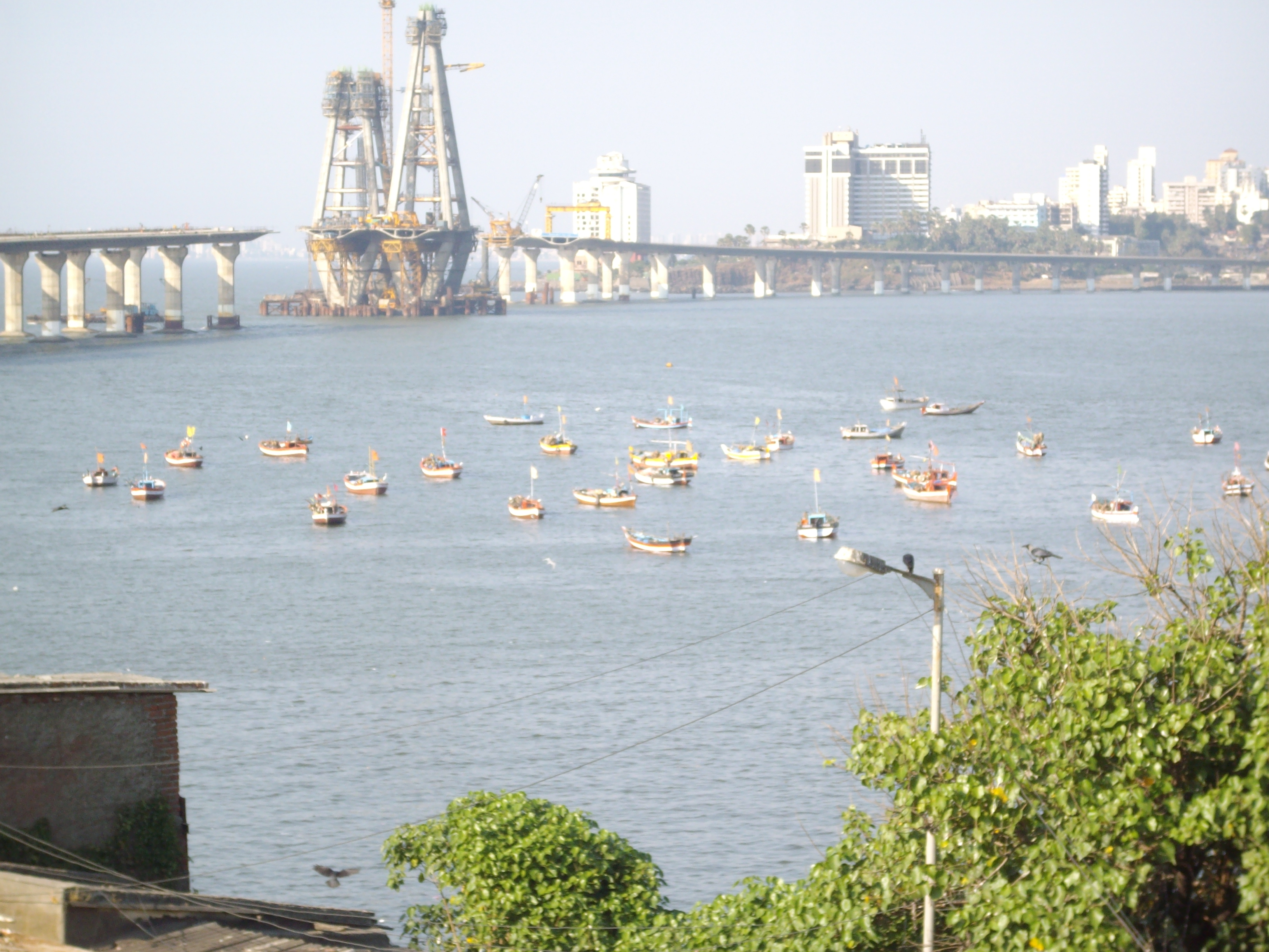 "Bandra-Worli sealink" under construction as observed from "Worli villge."